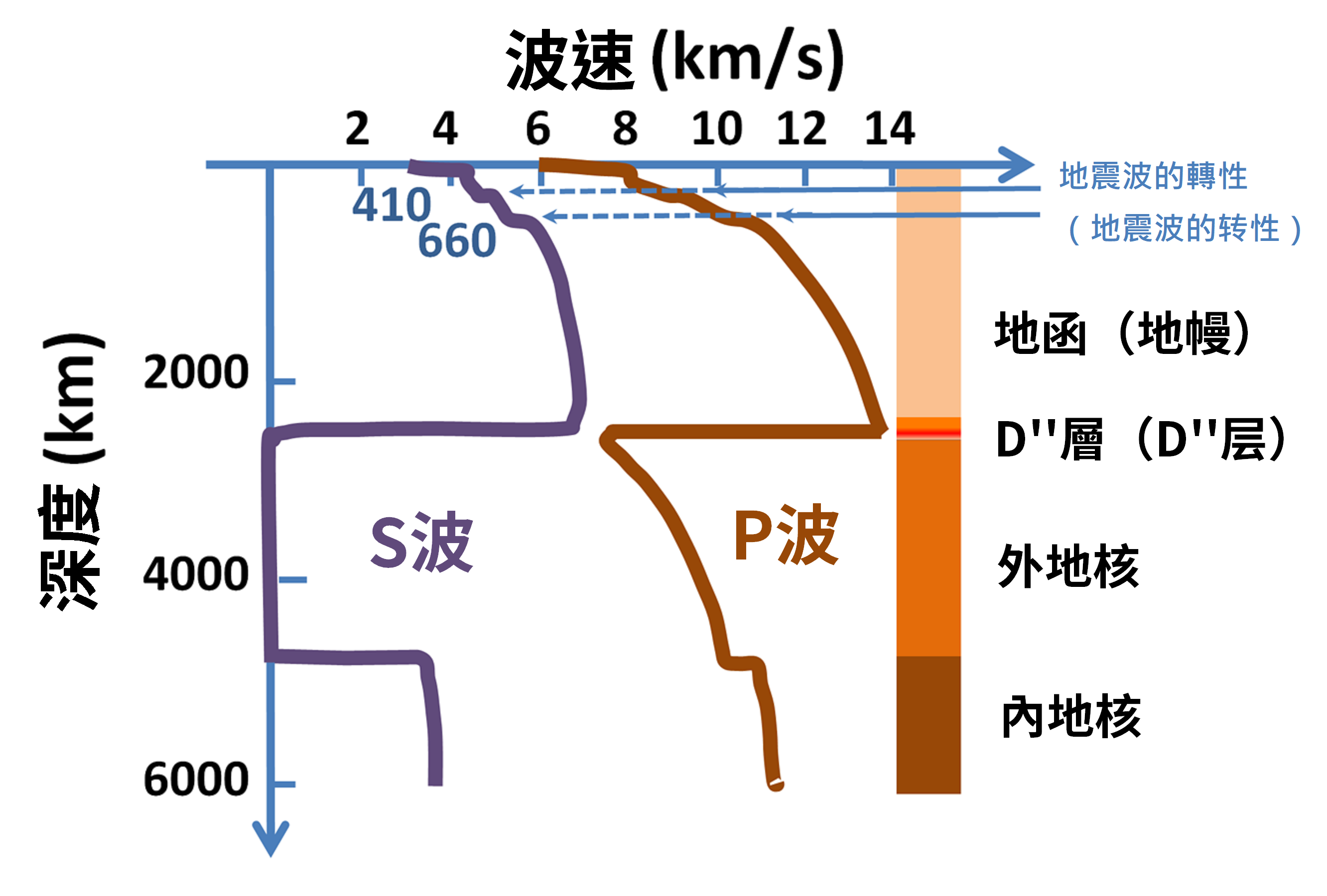 Speed of seismic waves versus depth into the Earth, in both scripts of Mandarin Chinese.